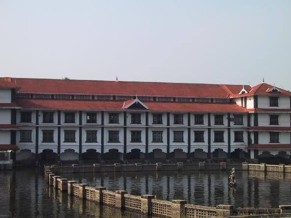 Guruvayur Temple Tank